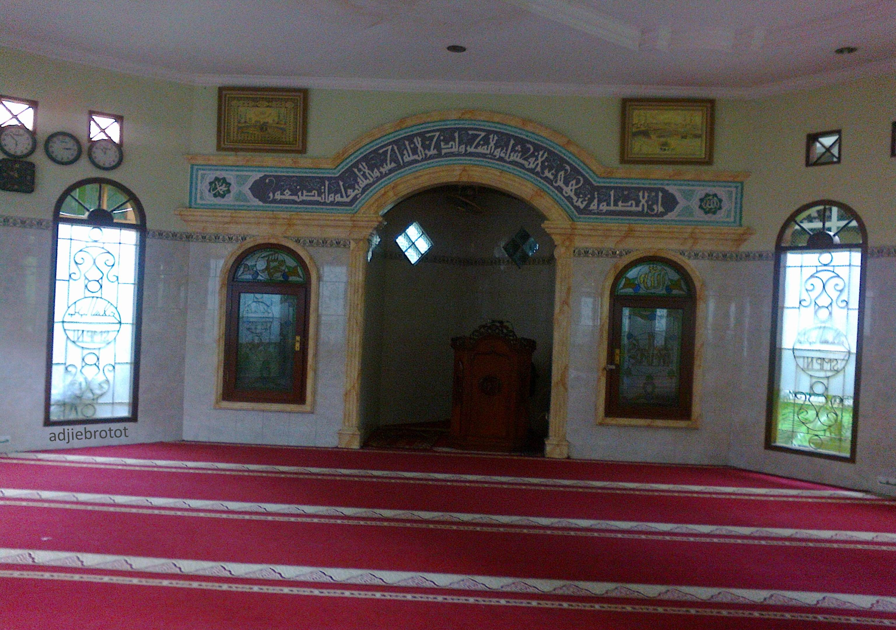 State Junior High School 1's Babussalam Mosque by AdjiebrototBahasa Indonesia: Masjid Babussalam SMP Negeri 1 Jakarta oleh Adjiebrotot